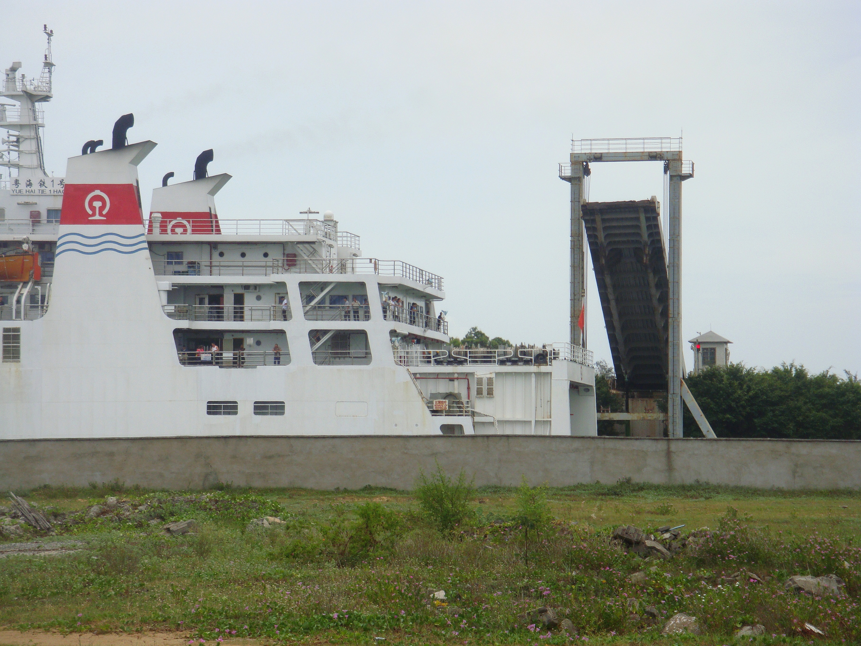 Ferry Yue Hai Tie 1 Hao leaving South Port, Haikou, Hainan, China